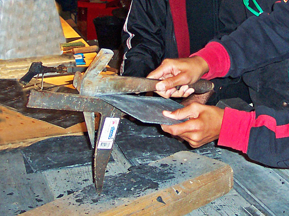 Slate sizing apprenticeship.